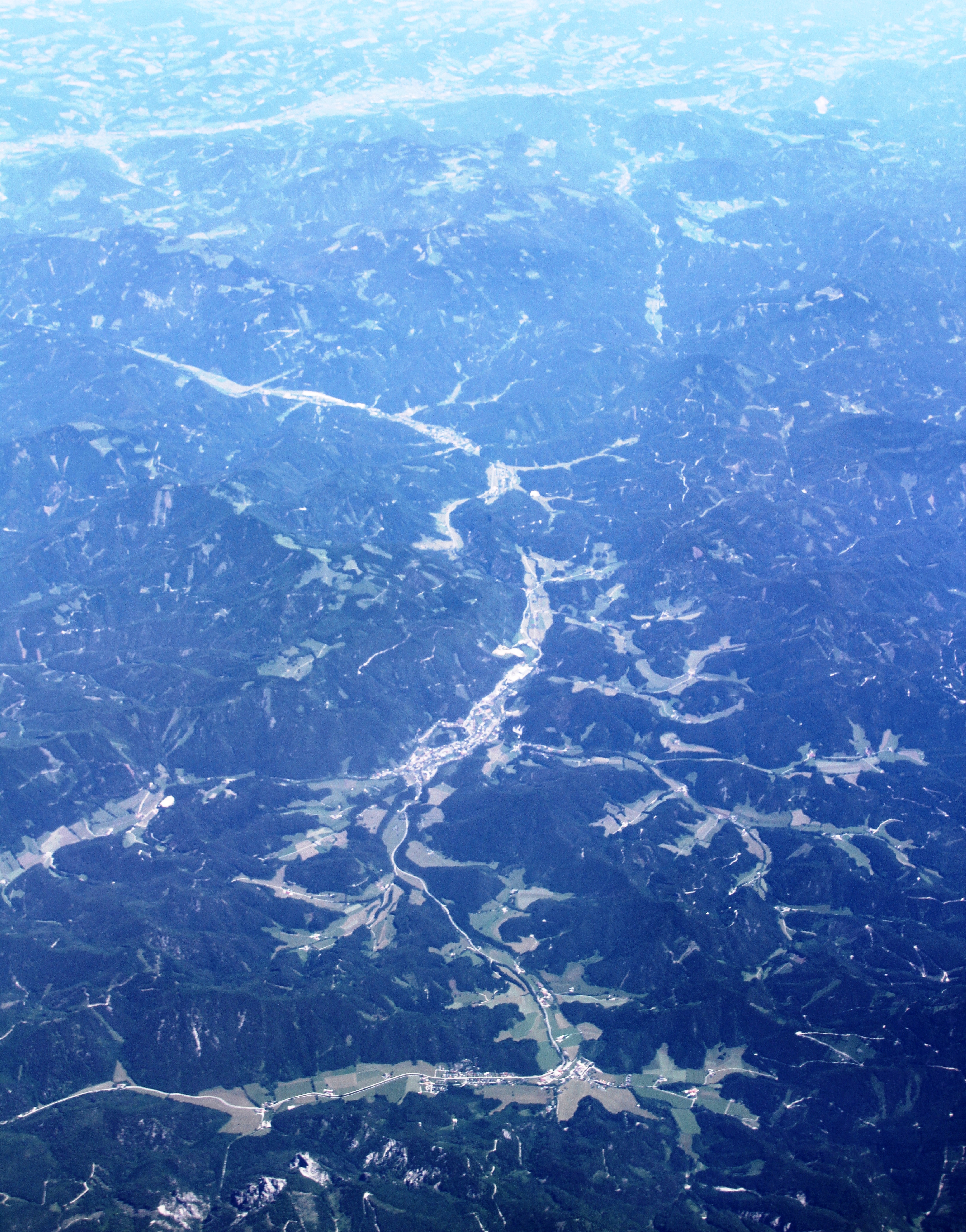 The Traisen river valleys of Keerbach and Unrechttraisen rivers west of Wien (Vienna), with Kroatendorf Iron Works in the center. Gemeinde (Borough) St Aegyd in Neuwalde, Bezirk (Commune) Lilienfeld, in the Mostviertel part of Niederösterreich (Lower Austria).